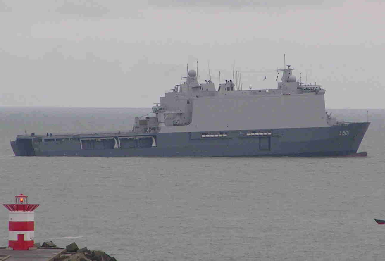 Picture of the Hr. Ms. Johan de Wit (Dutch amphibious warfare ship) during a sea trial near the coast of Scheveningen